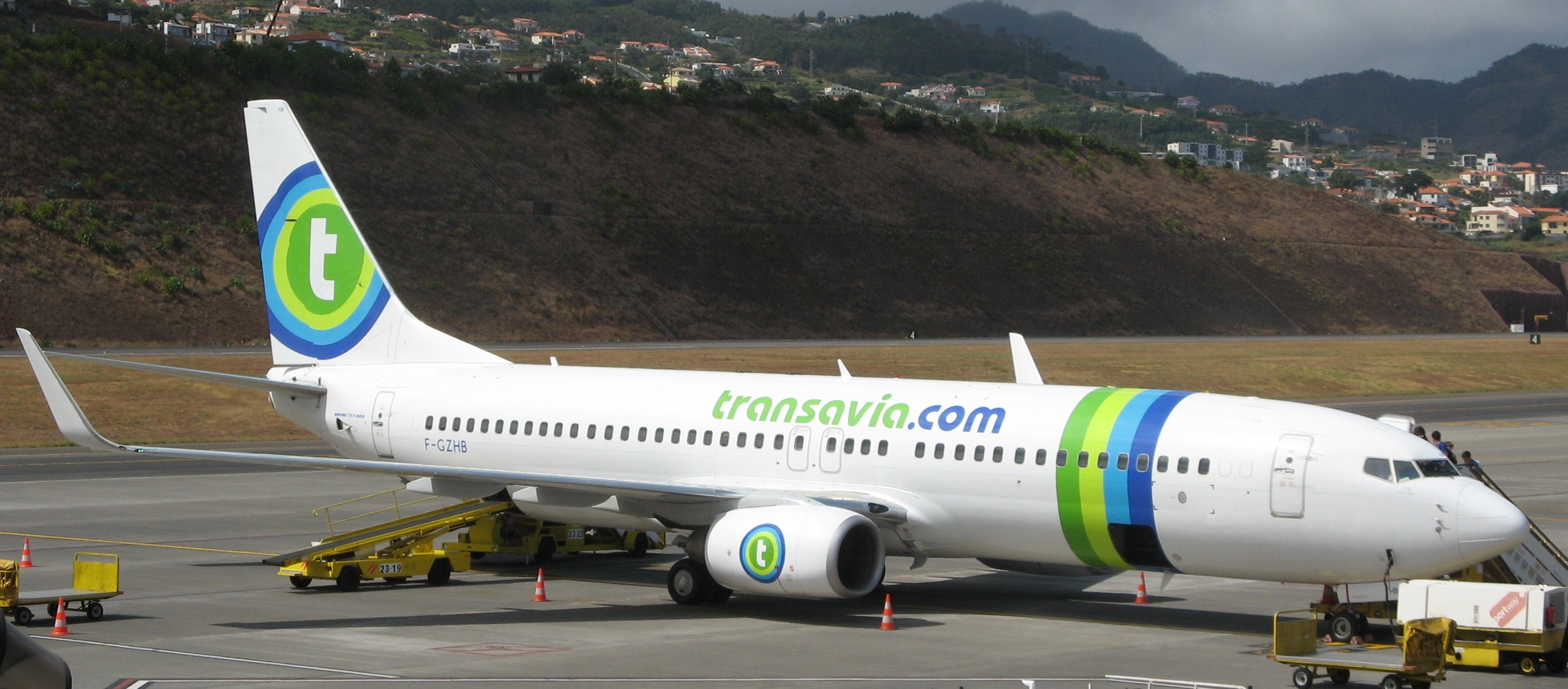 A Boeing 737-800 with registration F-GZHB